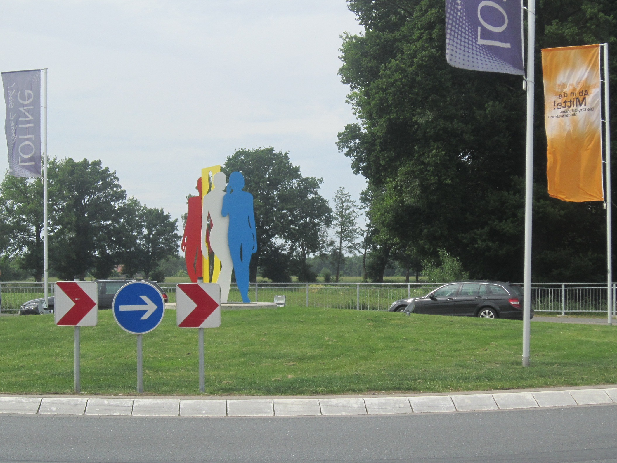 Sculpture "Jede Menge Leute" by Werner Berges in a Lohne roundabout